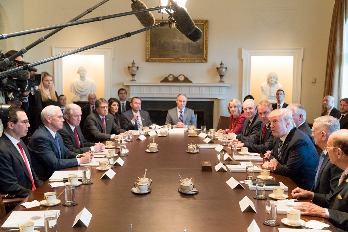 First meeting of the Cabinet of Donald Trump in the White House